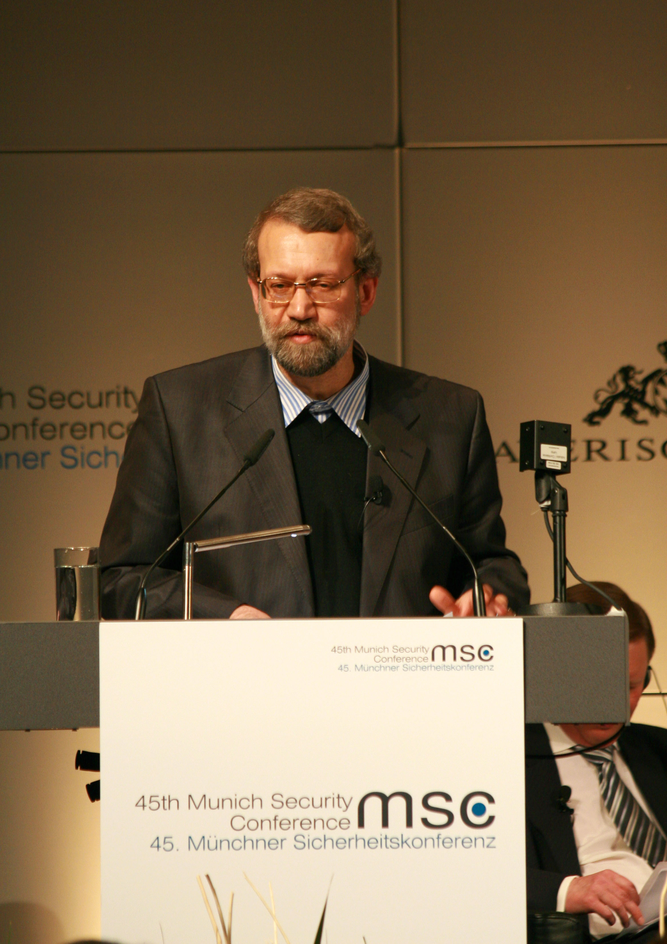 45th Munich Security Conference 2009: Dr. Ali A. Larijani, Speaker of the Majlis, Tehran, during his speech on Friday.